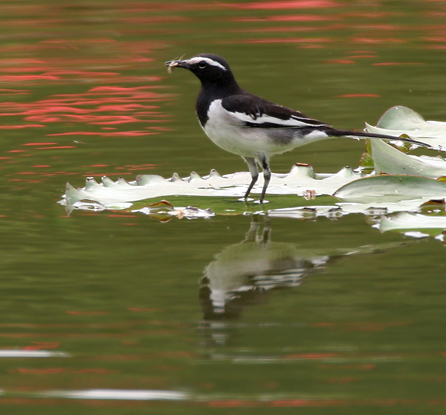 White-browed Wagtail or Large Pied Wagtail Motacilla maderaspatensis in Hyderabad, India.